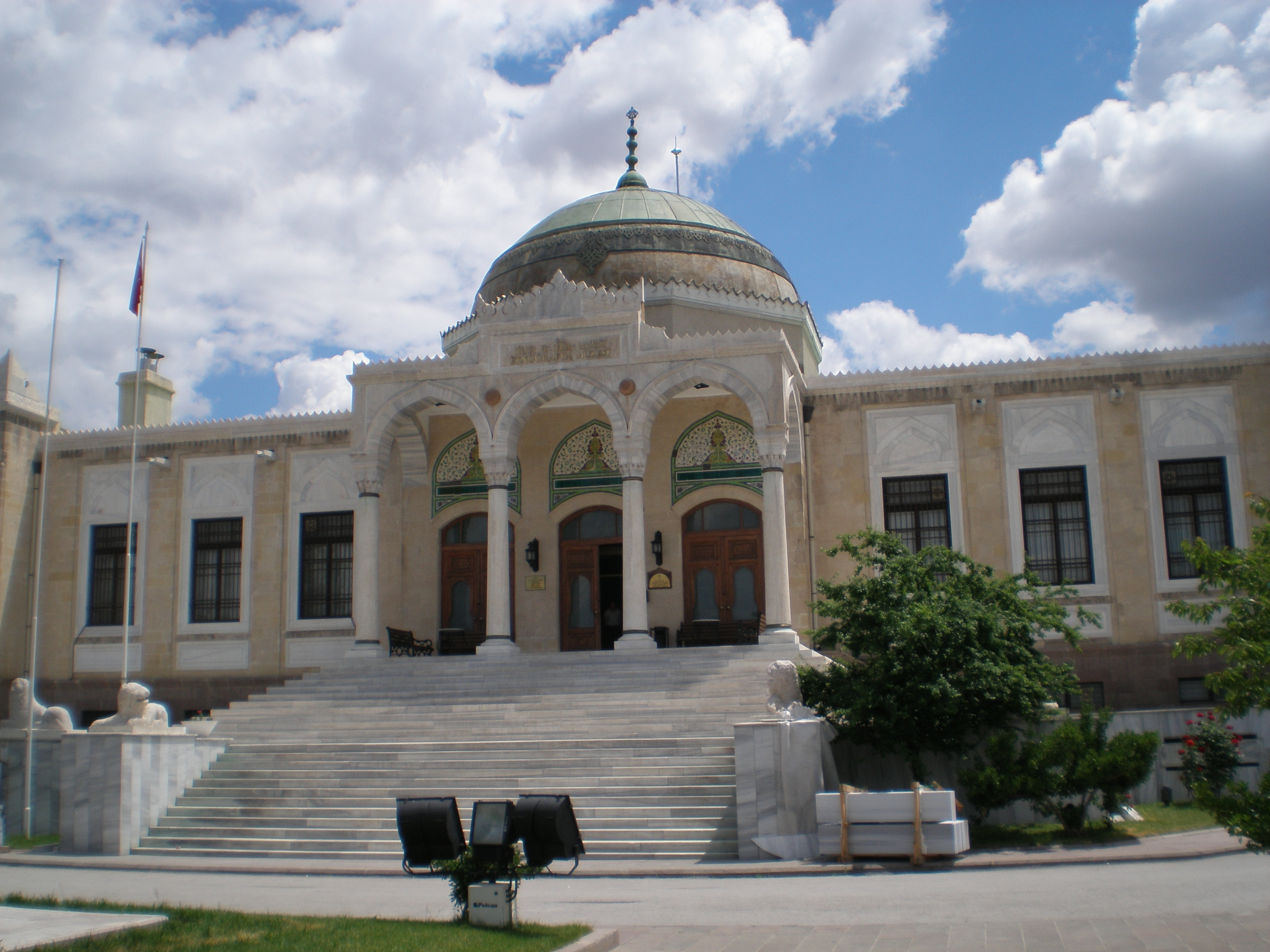 Resim ve Heykel Müzesi Ankara Arts Museum